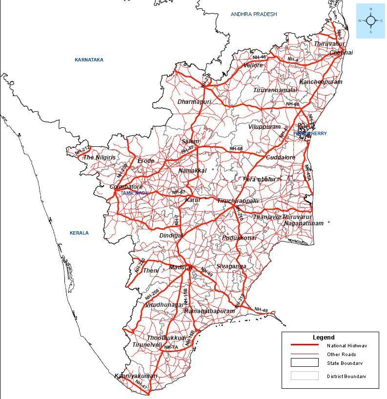 Map showing Road Highways network in Tamilnadu